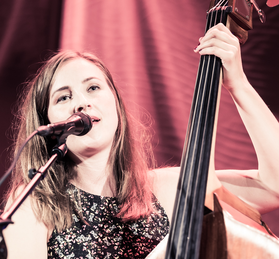 Ellen Andrea Wang at the stage of Sentralen. The concert was part of the Oslo Jazz Festival in Norway and took place on 18. August 2016. Lineup:Ellen Andrea Wang (double bass)Jon Balke (piano)Hanna Paulsberg (saxophone)Andreas Ulvo (keyboard)Erland Dahlen (drums)